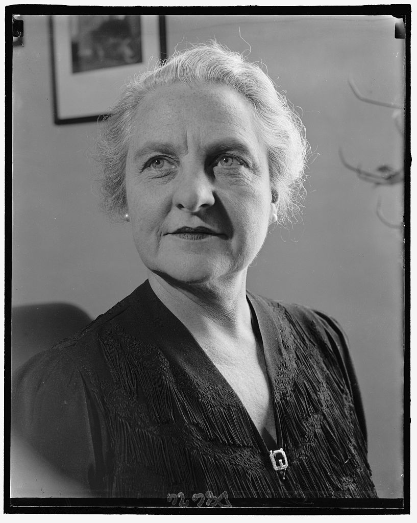 Frances P. Bolton, congresswoman from Ohio, seated.